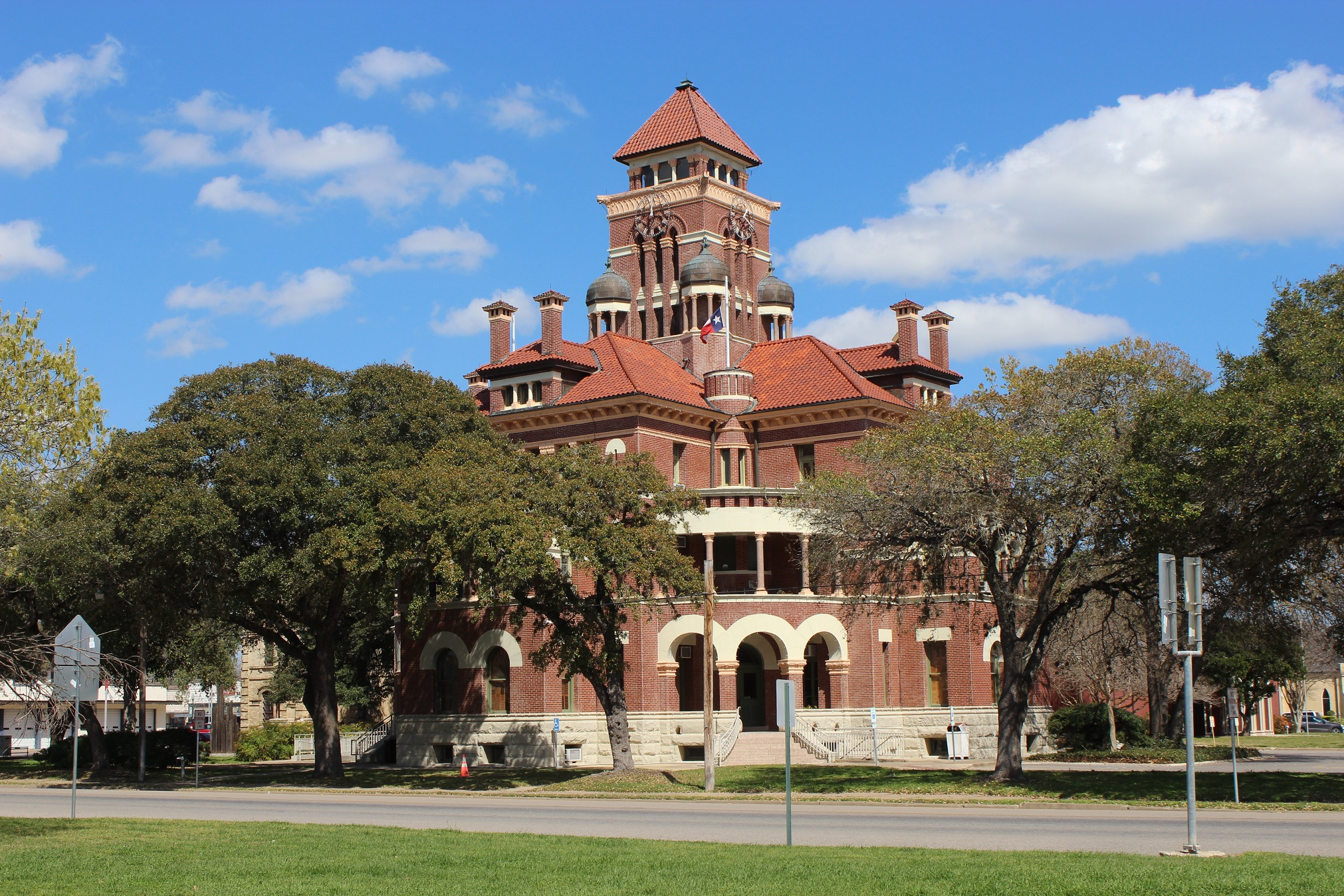 Gonzales Courthouse. #2219